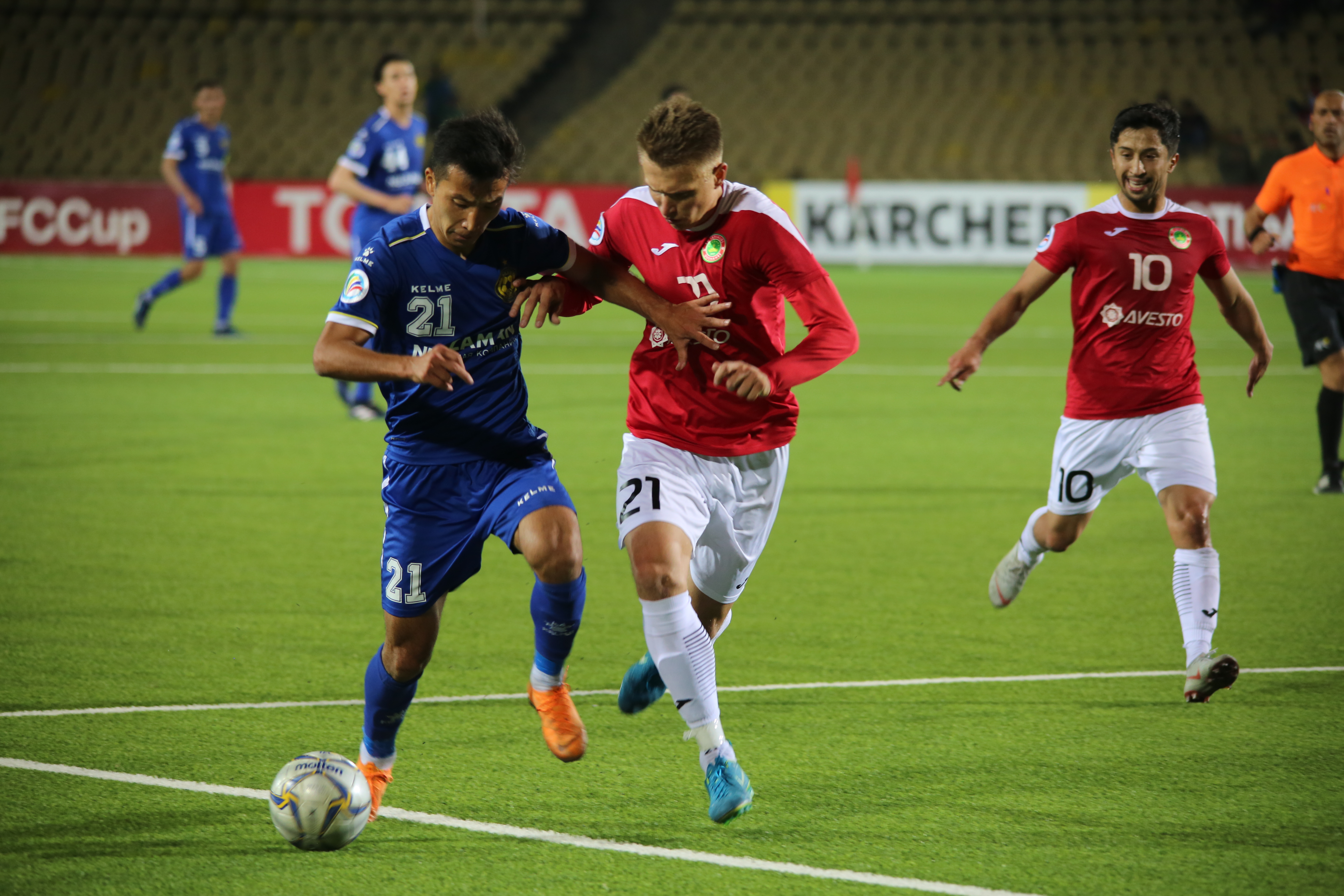 "Dordoi" midfielder Farhat Musabekov (left) vs. "Istiklol" club